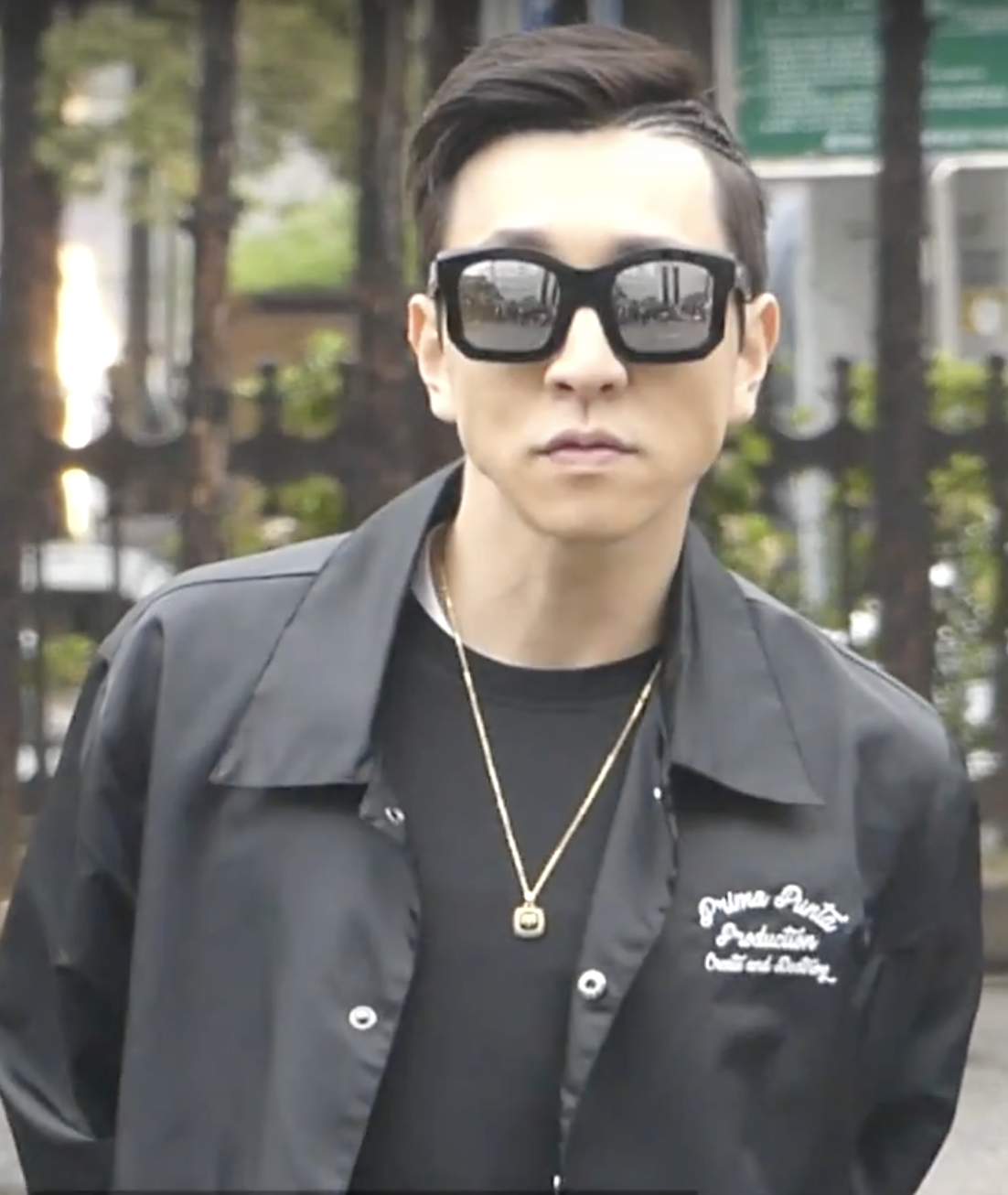 South Korea-based American rapper Flowsik in April 2018